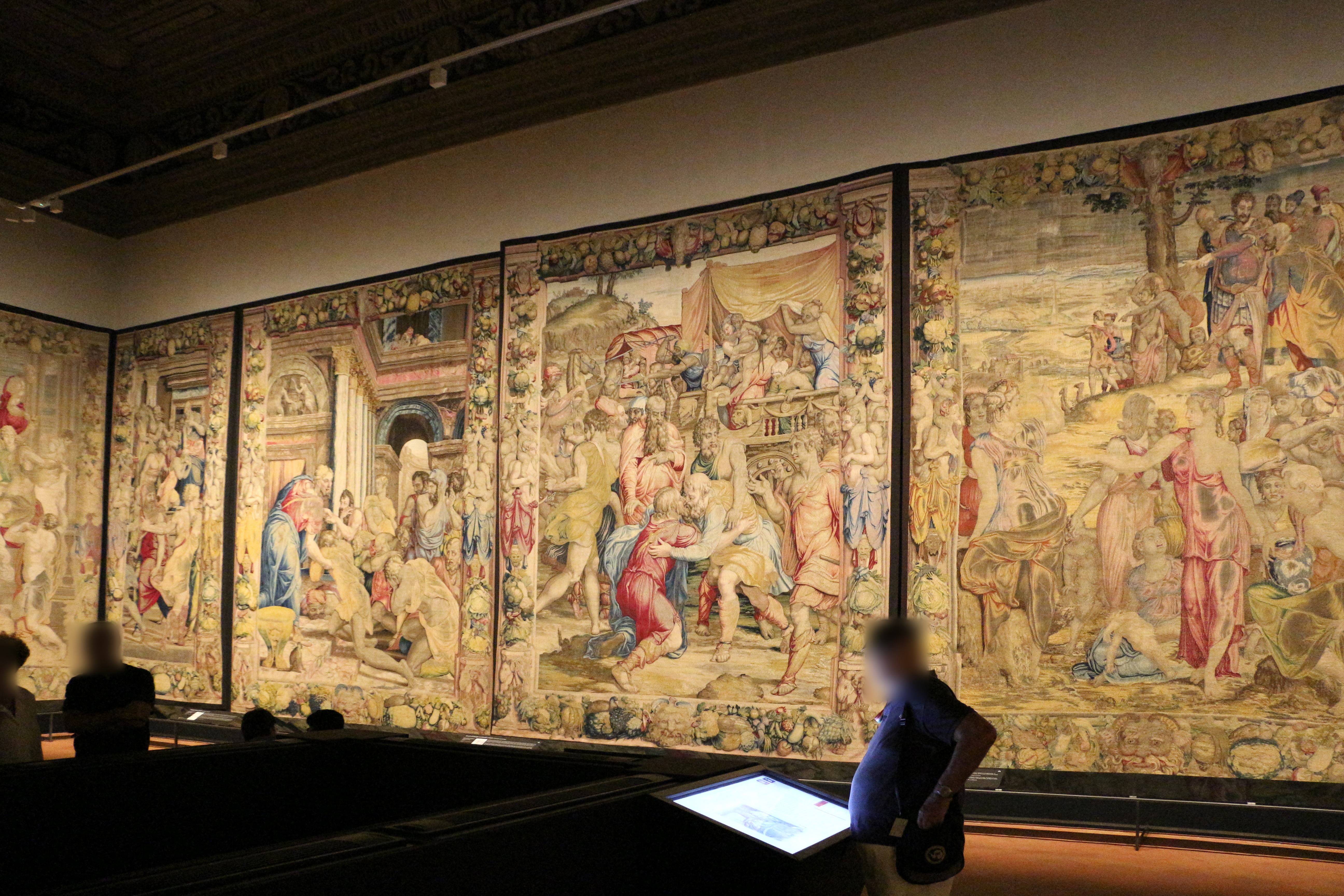 Medicean tapestries of the Stories of Joseph